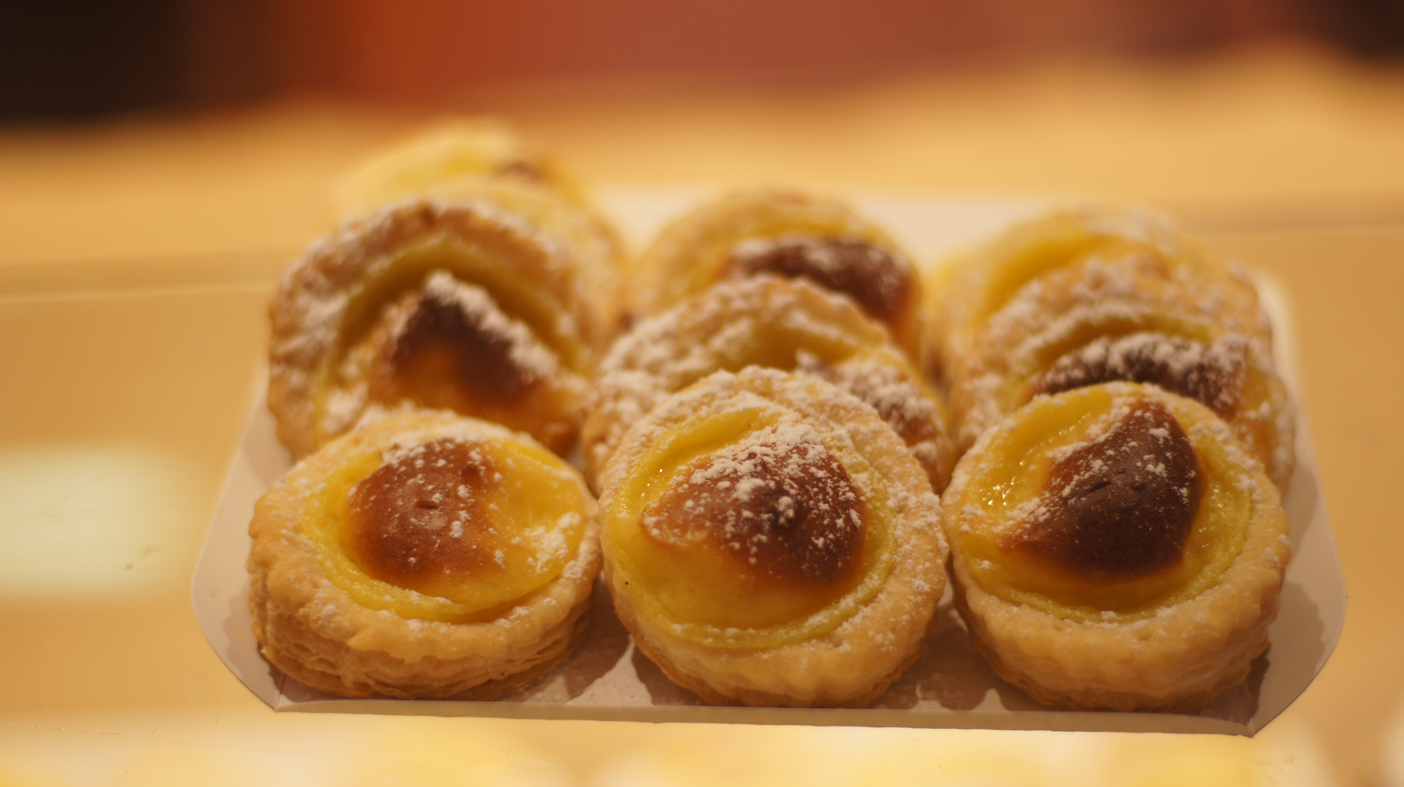 Niflettes, traditional pastries from Seine et Marne, France available only around All saints' day